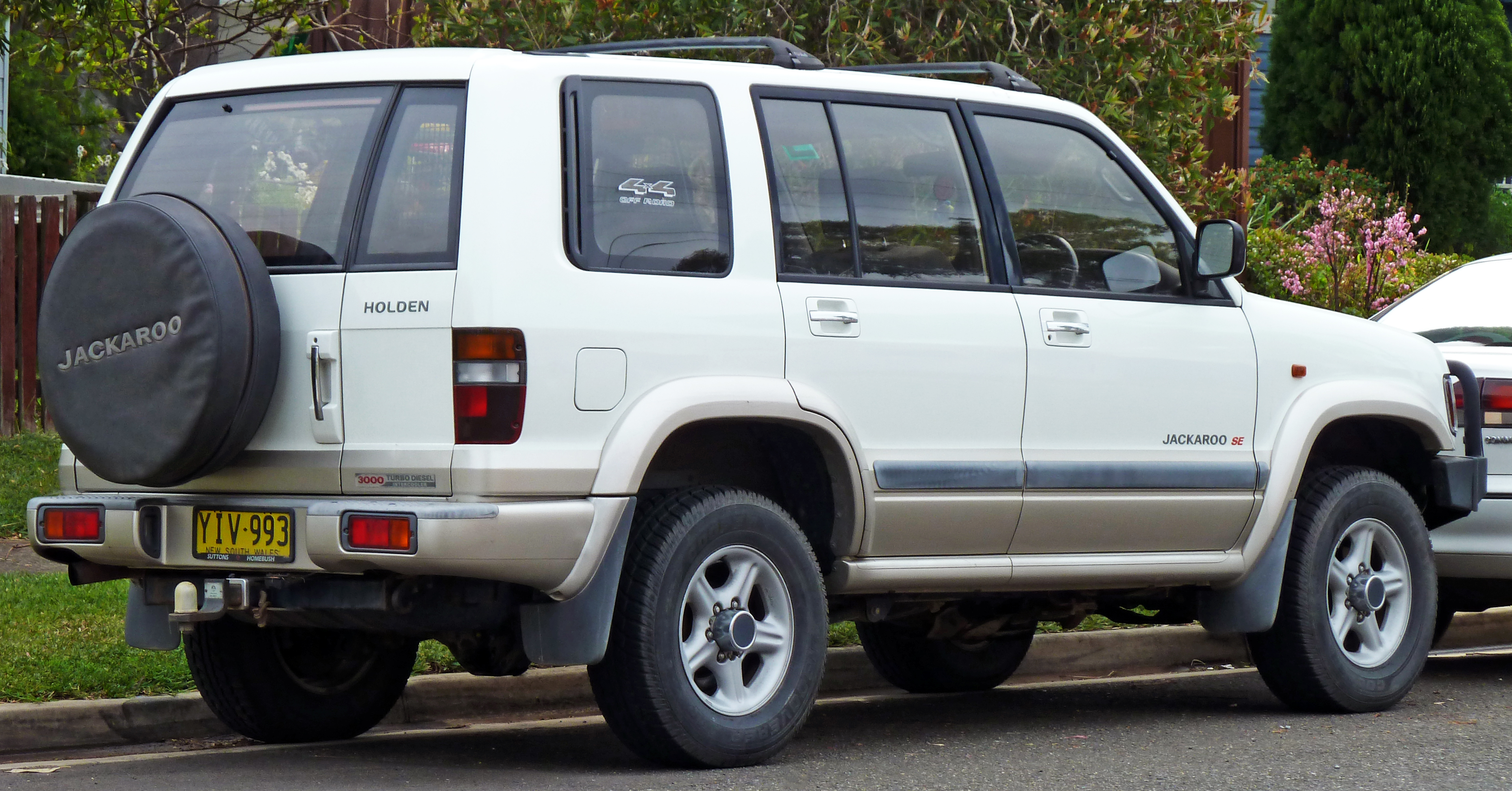 2001–2003 Holden Jackaroo (UBS) SE 5-door wagon. Photographed in Caringbah, New South Wales, Australia.